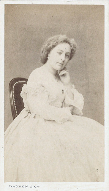 Soprano Marie Garnier, portrait by René Dagron (et Cie)